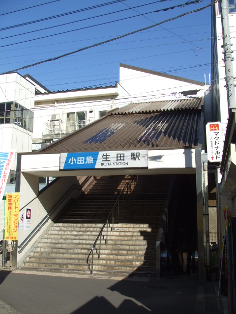 South building of Ikuta station,OER-ODAWARA-LINE,Odakyu Electric Railwey,Japan